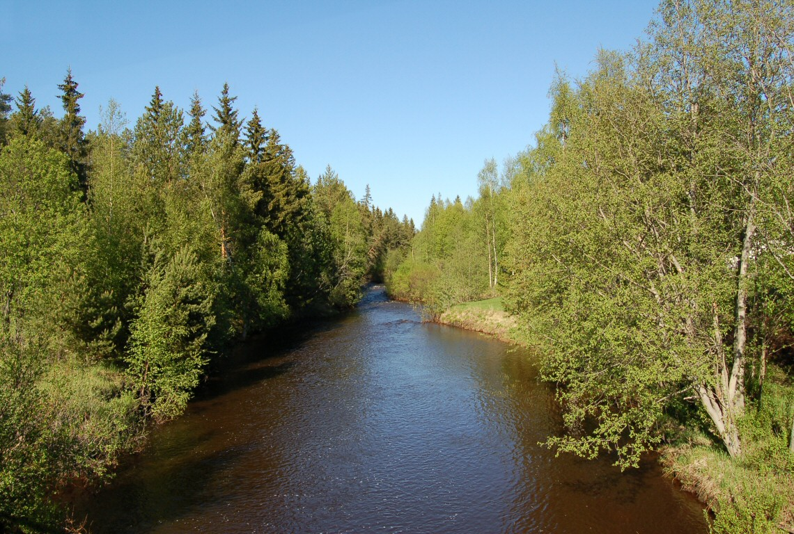 Kalimeenoja creek with riparian forest, in Kalimeenkylä, Haukipudas, Finland.